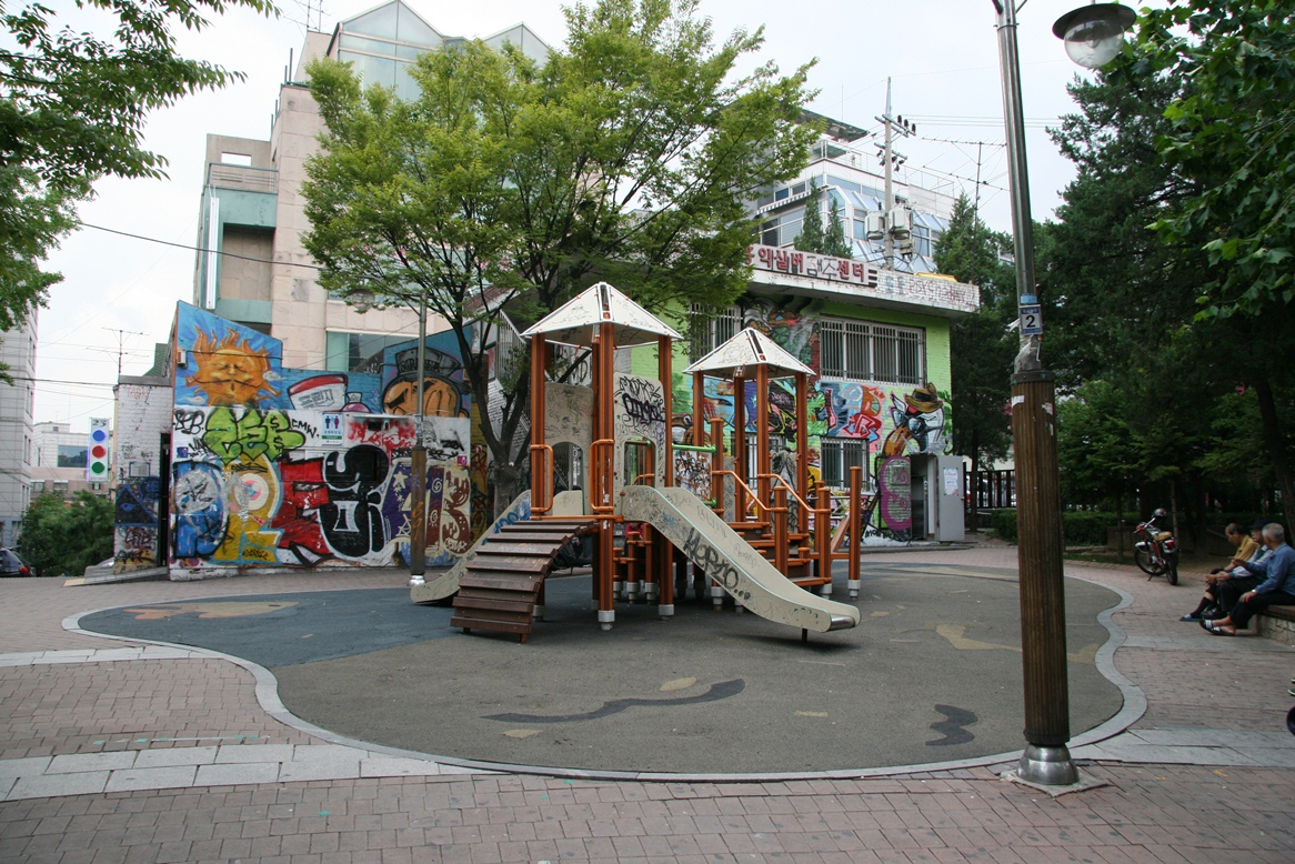 Hongdae Playground (or Hongik Children's Park) on Wausan-ro 21-gil in Hongdae, Mapo-gu, Seoul in 2012